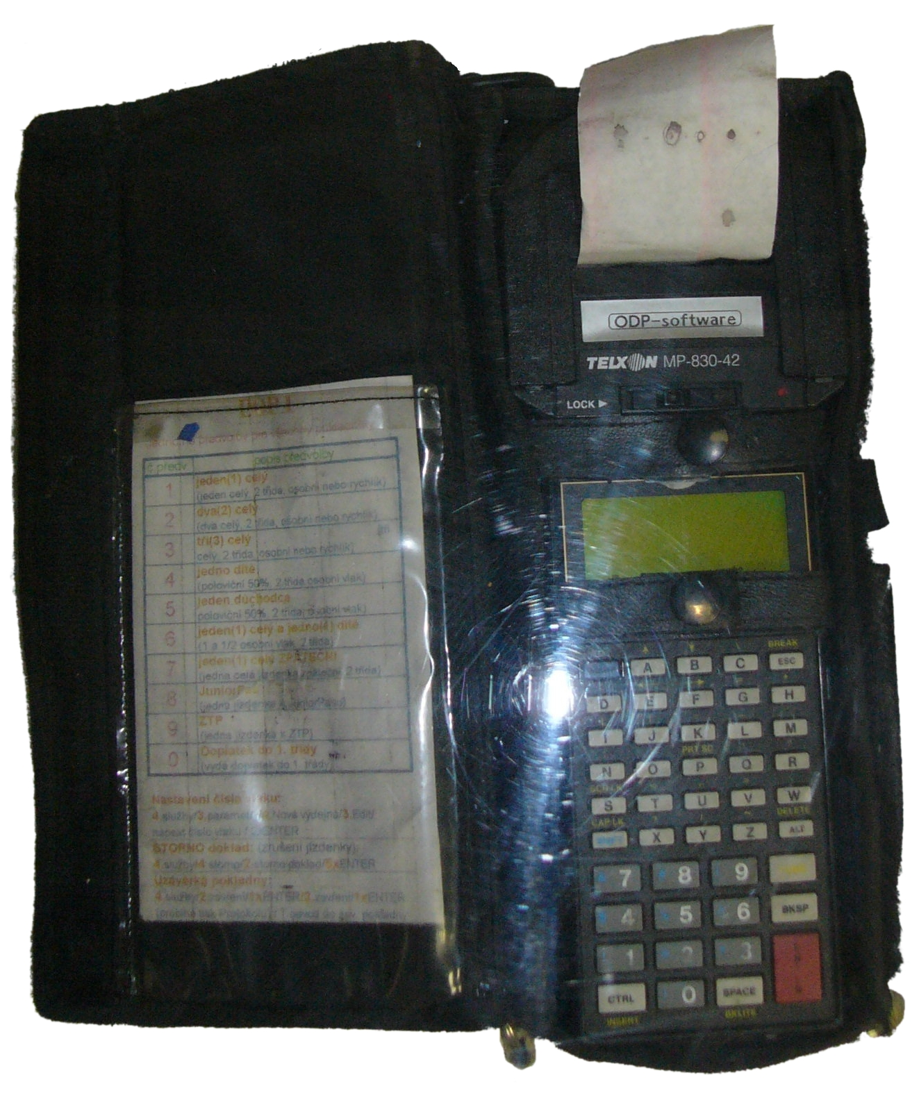 Telxon PTC-710 with MP 830-42. Telxon 16-bit mobile computer PTC-710 with microprinter 42-column version. It was manufactured by the Telxon corporation since early 1990s. It was used as portable ticket machine by Czech Railways (České dráhy) in 1990s.